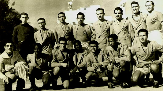 Picture of ancient regional team of soccer of Morocco in 1942